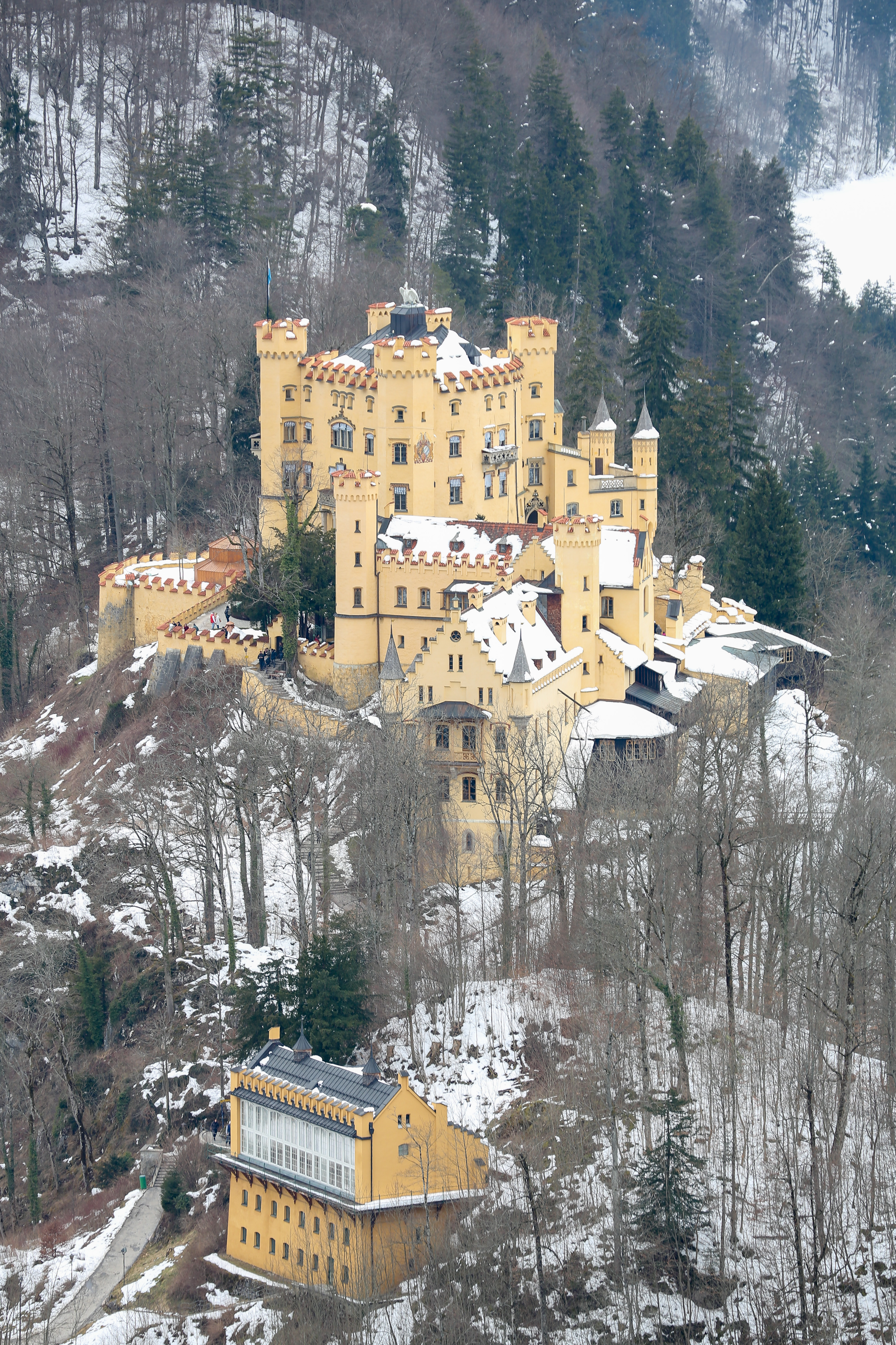 Hohenschwangau, Schwangau, Germany